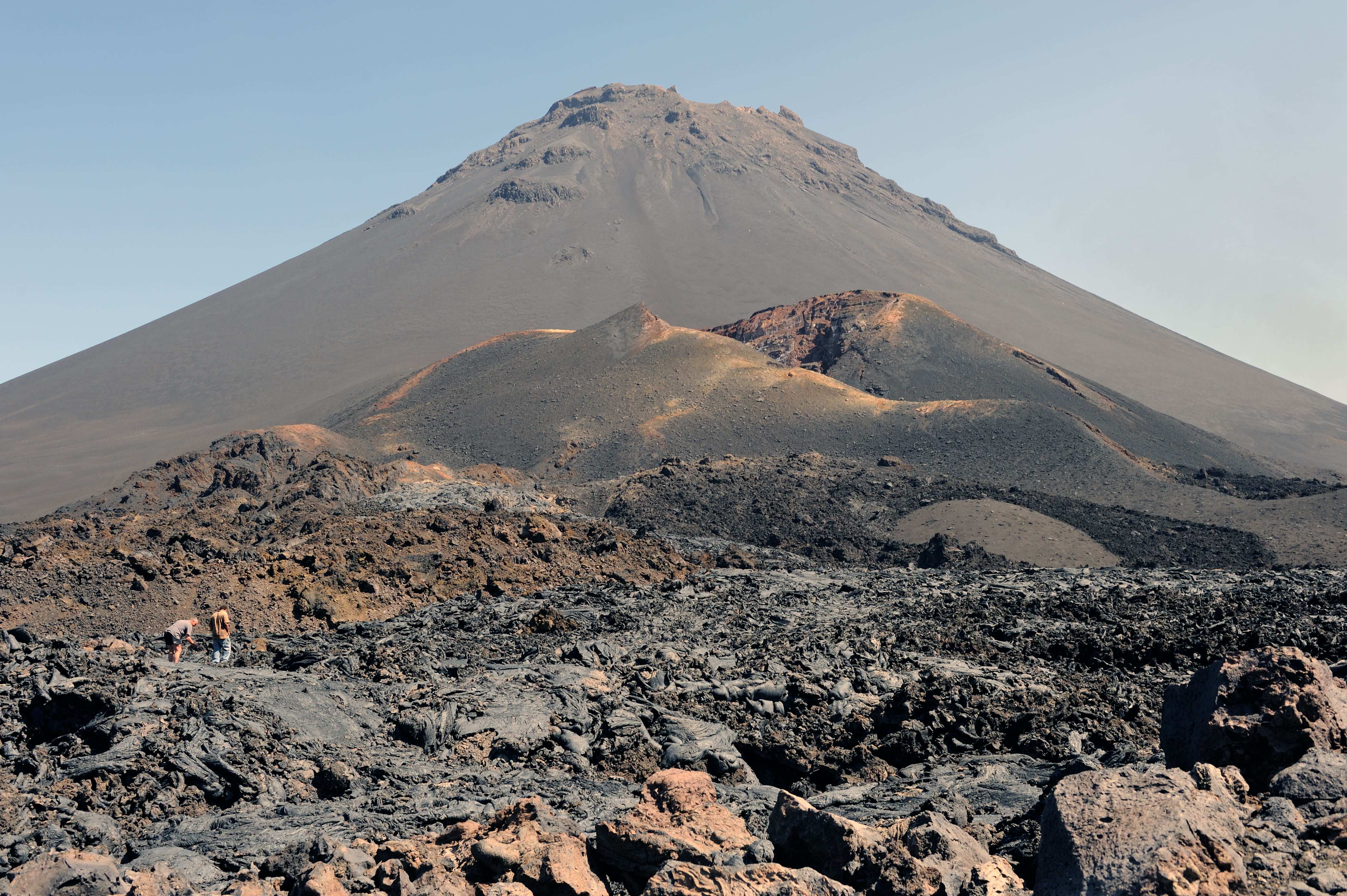 Cape Verde, isle of Fogo: Volcano Pico do Fogo.